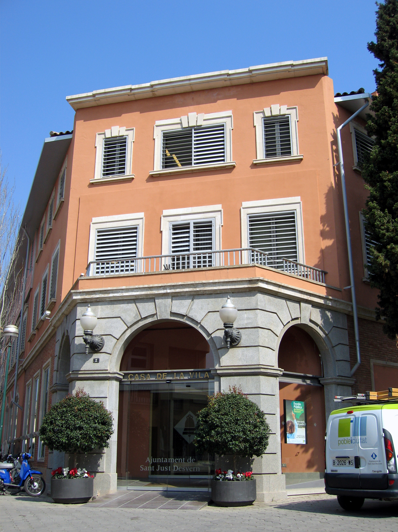 The town hall of Sant Just Desvern (Catalonia).